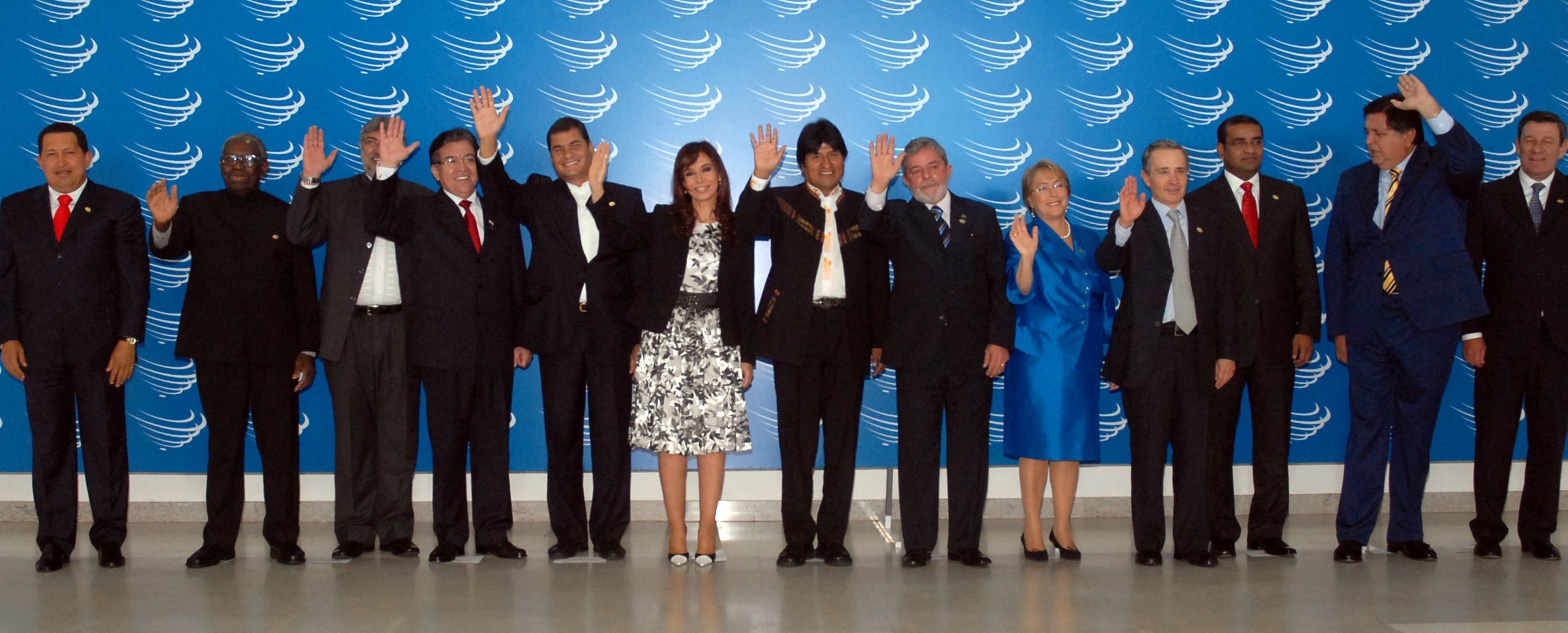 South American presidents during the 3rd Summit of Heads of State of the Union of South American Nations, held in Brasília on May 28 2008.